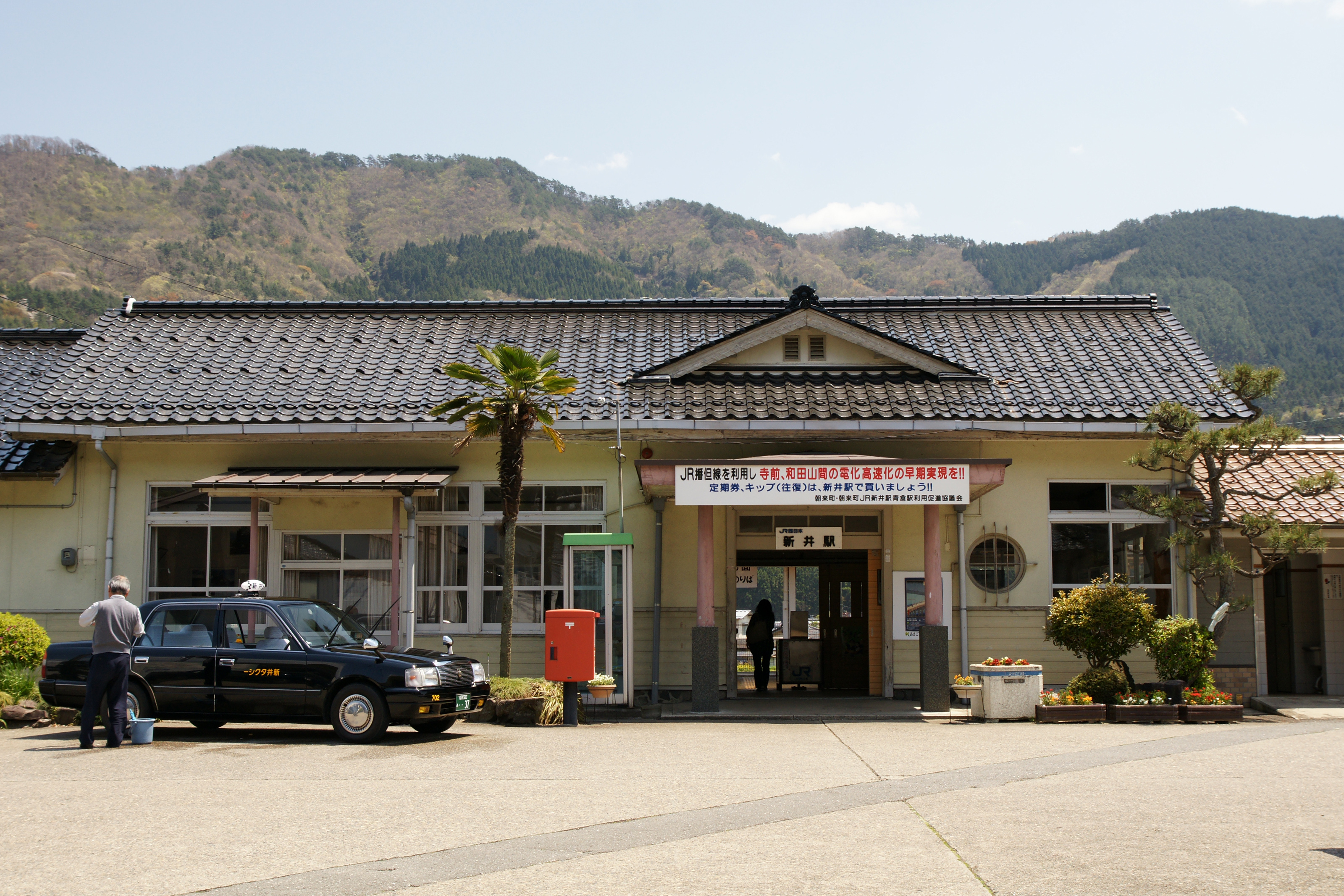 Nii Station in Asago, Hyogo prefecture, Japan.